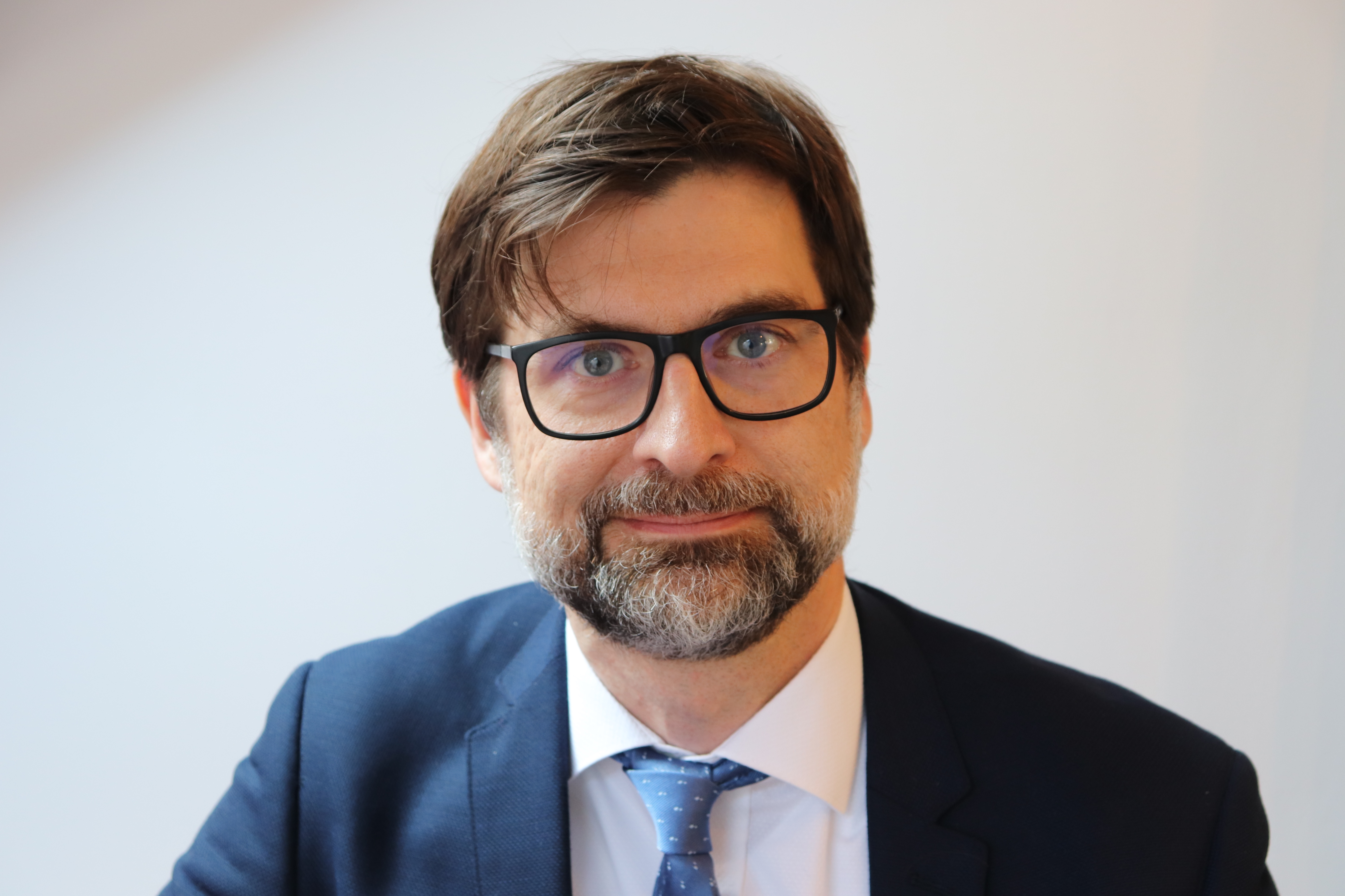 Dr. Istvan Petak, photo by Lelle Petak